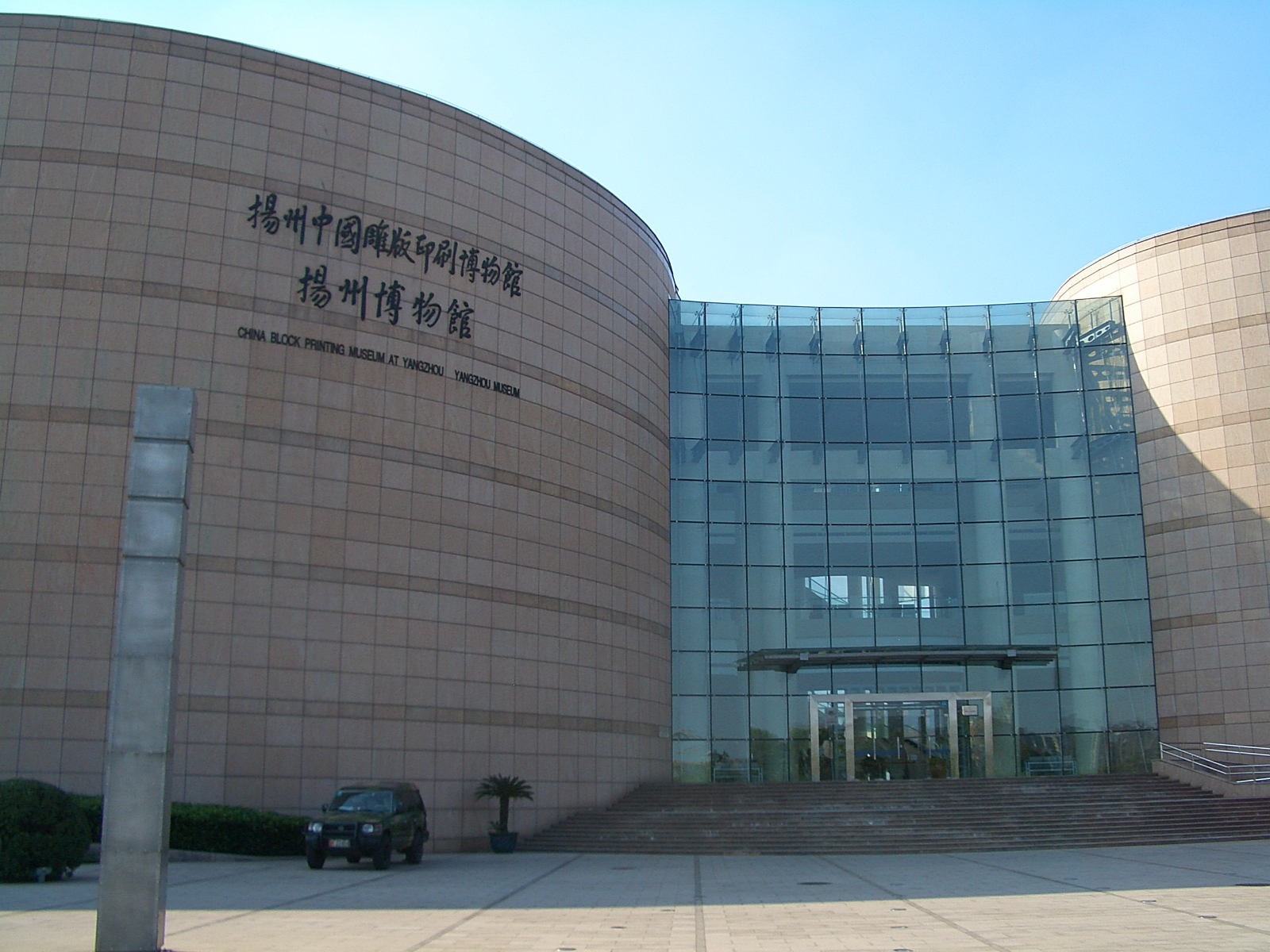 The "Double museum" on the western outskirts of Yangzhou. The new building houses the Yangzhou Museum (recently moved from downtown) and the China Block Printing Museum.